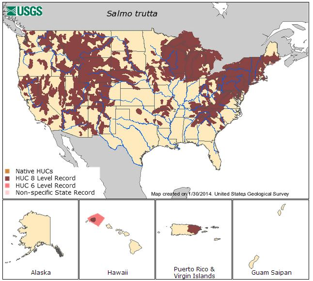 Non-indigenous range of Brown Trout in U.S. (Salmo trutta)